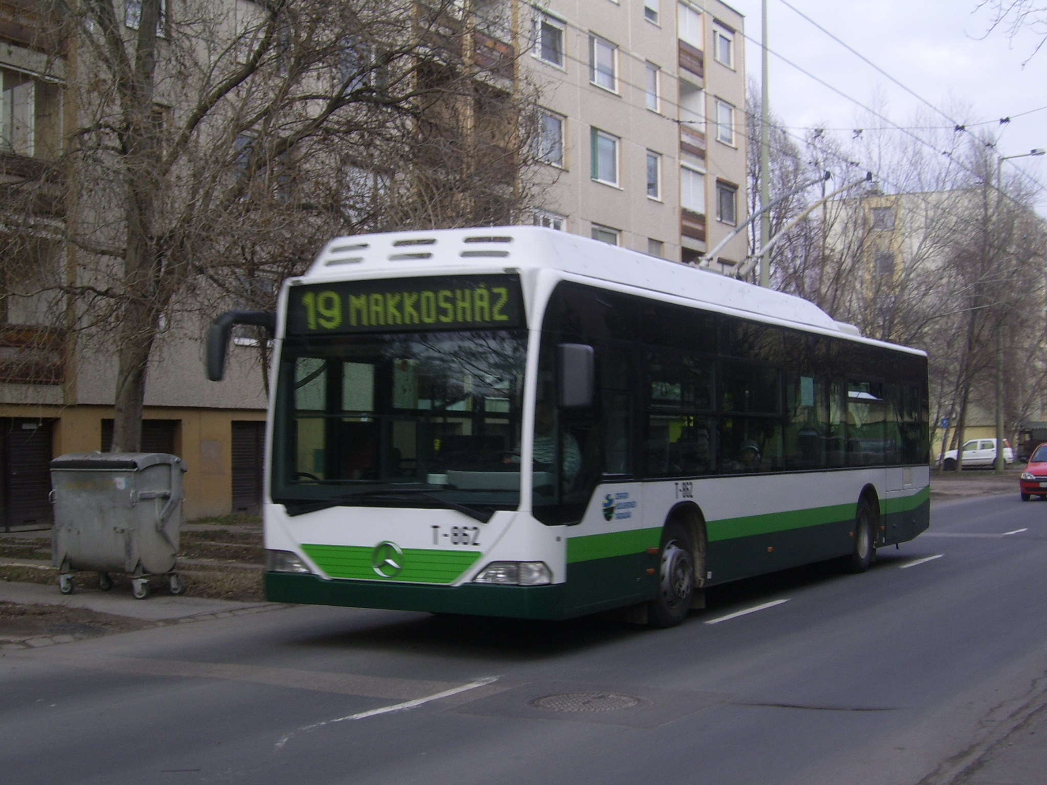 Trolley line 19 in Szeged.